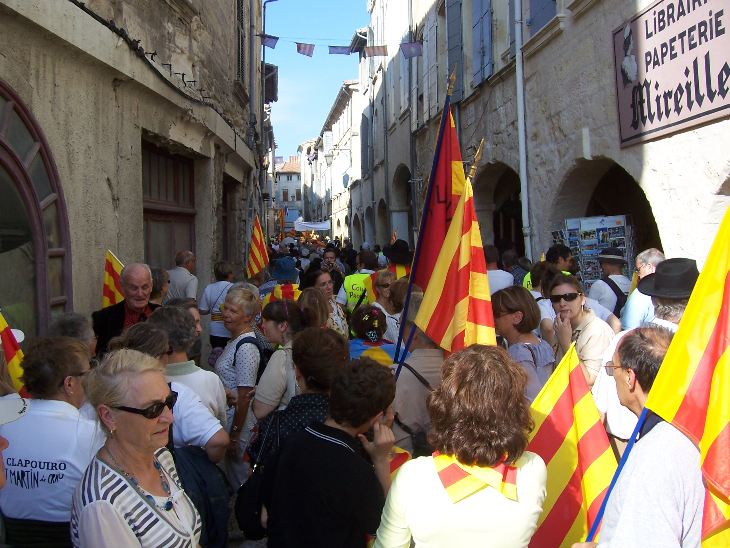 Demonstration for "the langues d'oc / plurality of "occitans" languages" and against simple "occitan". The demonstrators want the State to recognize Provençal language, Béarnais and Gascon languages and not simply "occitan".